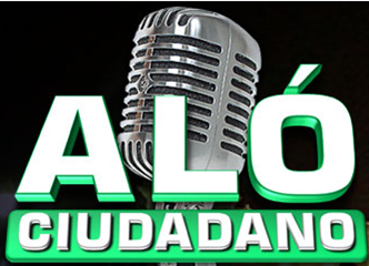 logo of Aló Ciudadano